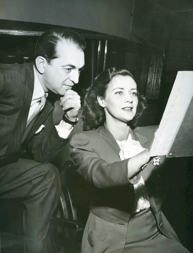 Photo of conductor Percy Faith and singer-actress Jane Froman preparing for her then new radio program. This was Froman's first time back at performing after being seriously injured in a 1943 plane crash.